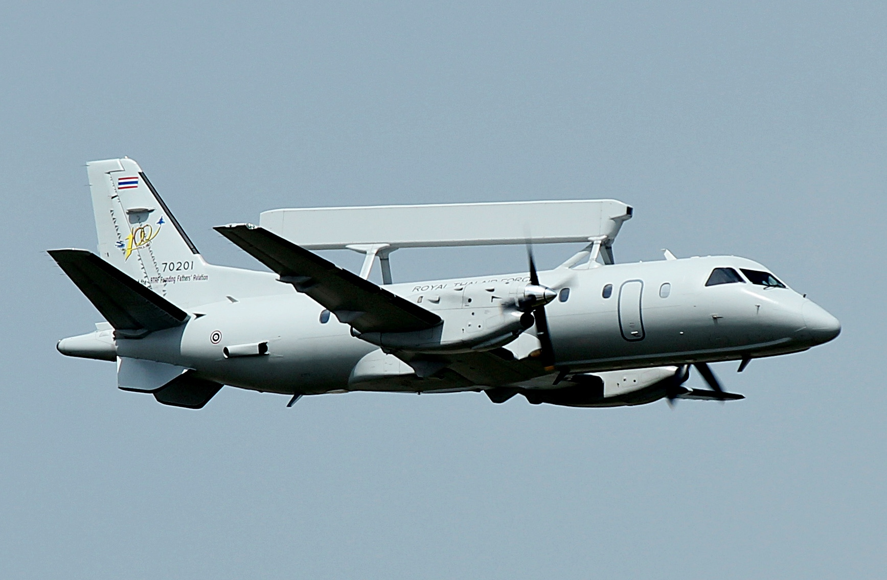 cropped version on this file